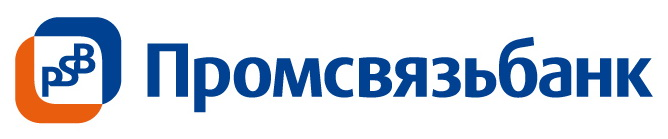 Logo Joint Stock Company "Promsvyazbank" (2008)